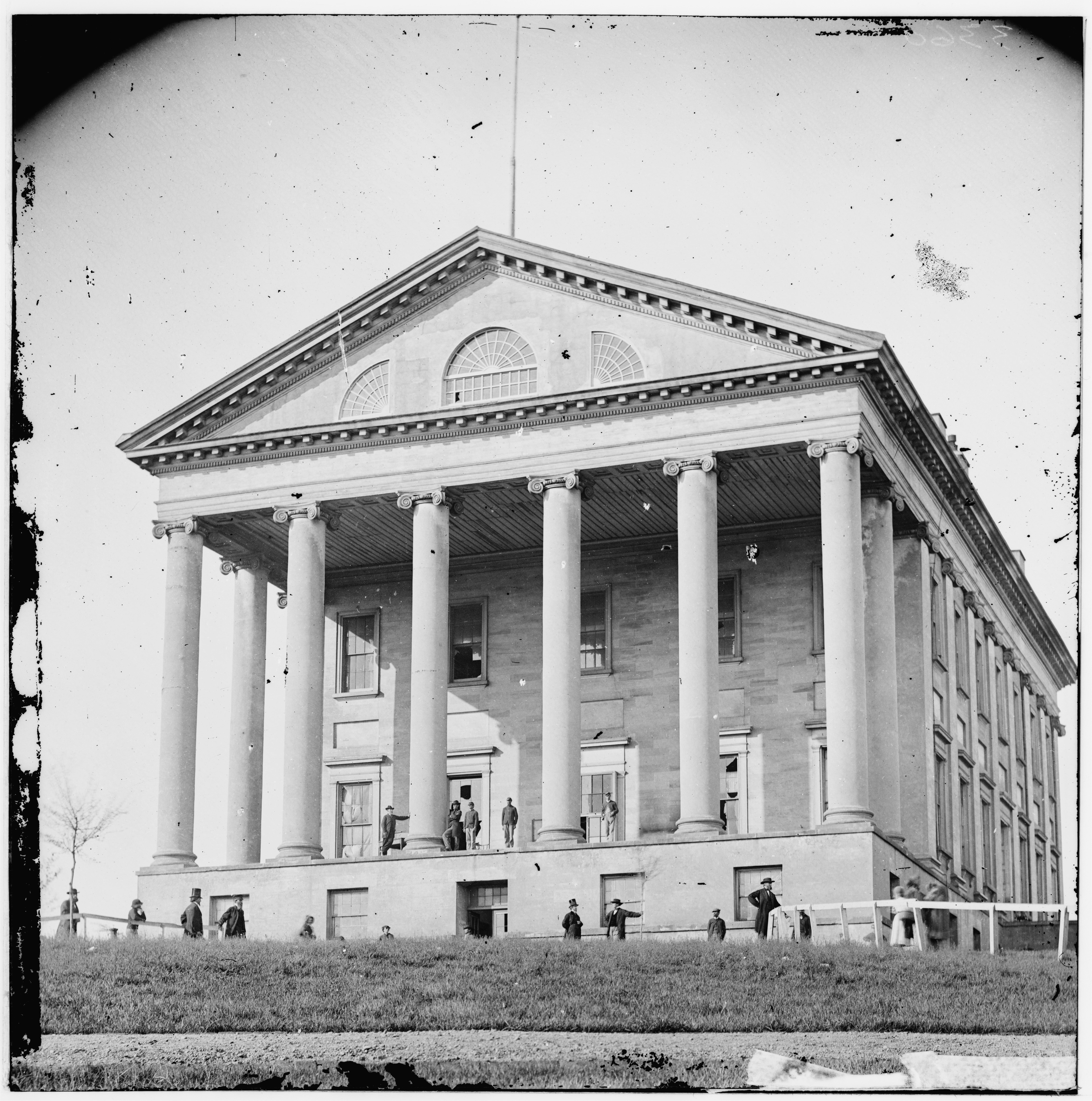 Virginia State Capitol front view 1865.